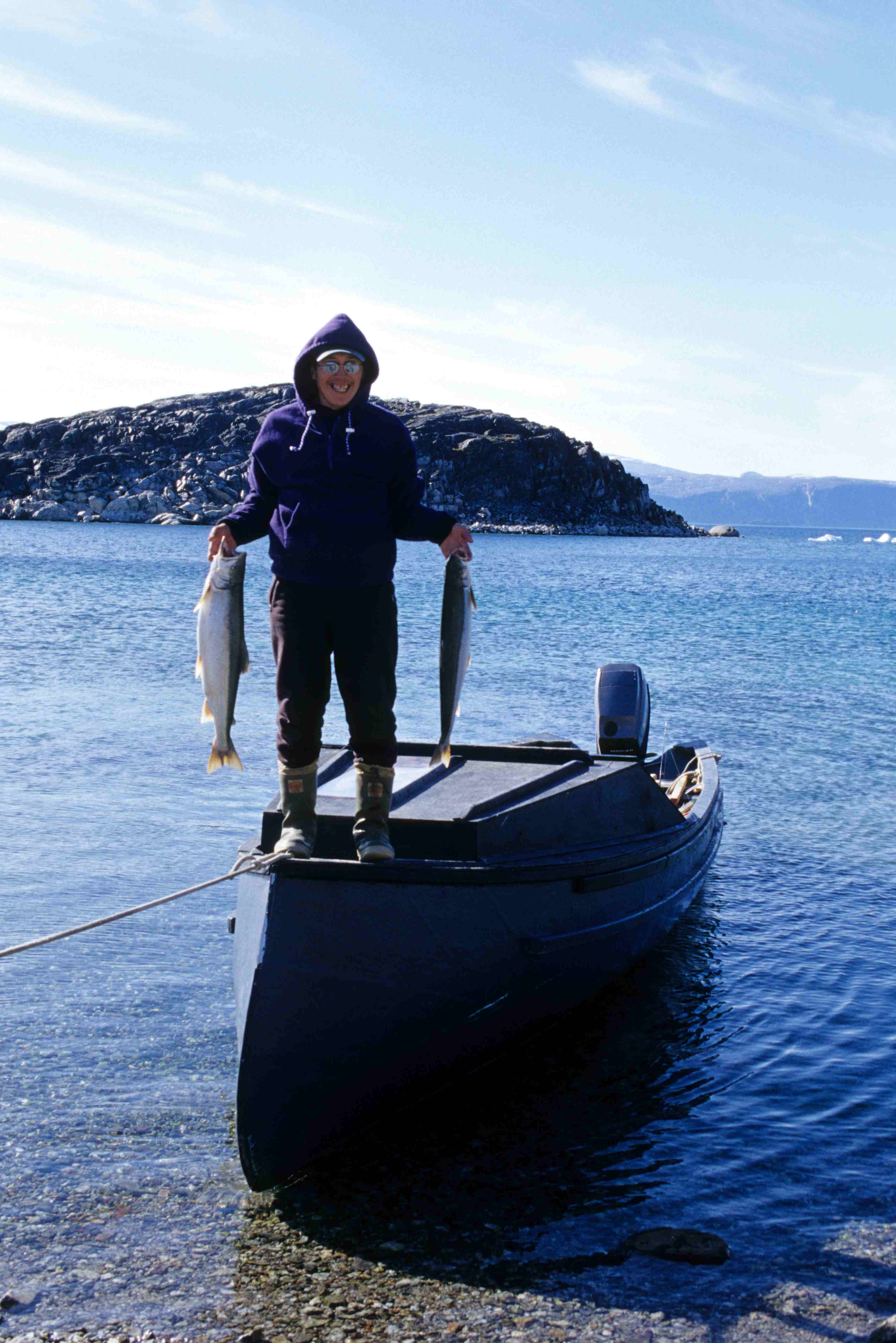 Northern end of Auyuittuq National Park: Arctic char catch at Nedlukseak Fiord (Davis Strait)